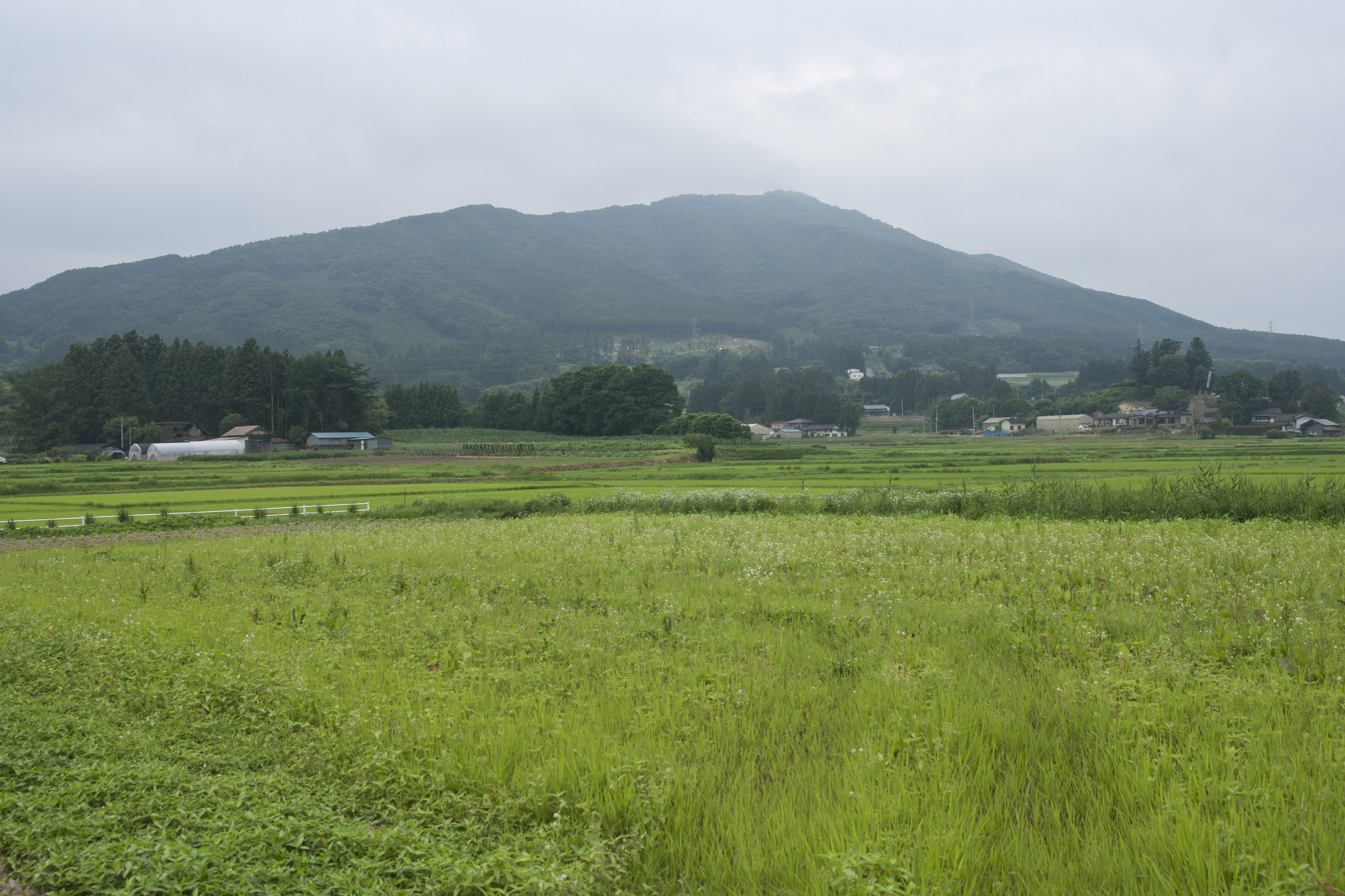 Mount Yomogidadake, Abukuma Mountains, Fukushima Pref., Japan.